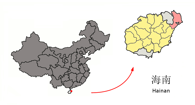 Location of Wenchang City (pink) and the subdivisions directly administered by the province (yellow) within Hainan province of China Map drawn in september 2007 using various sources, mainly : Hainan Counties map from